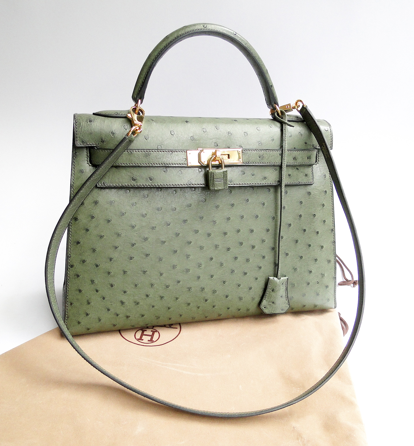 not clear if it is a fake